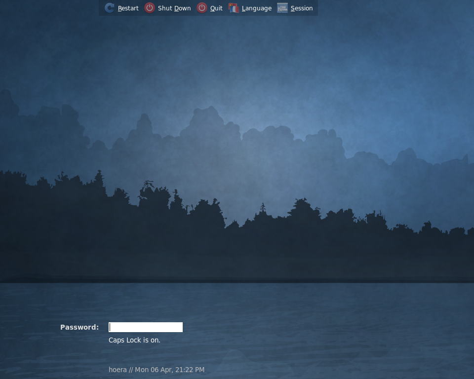 Screenshot of Xubuntu 9.04's login screen